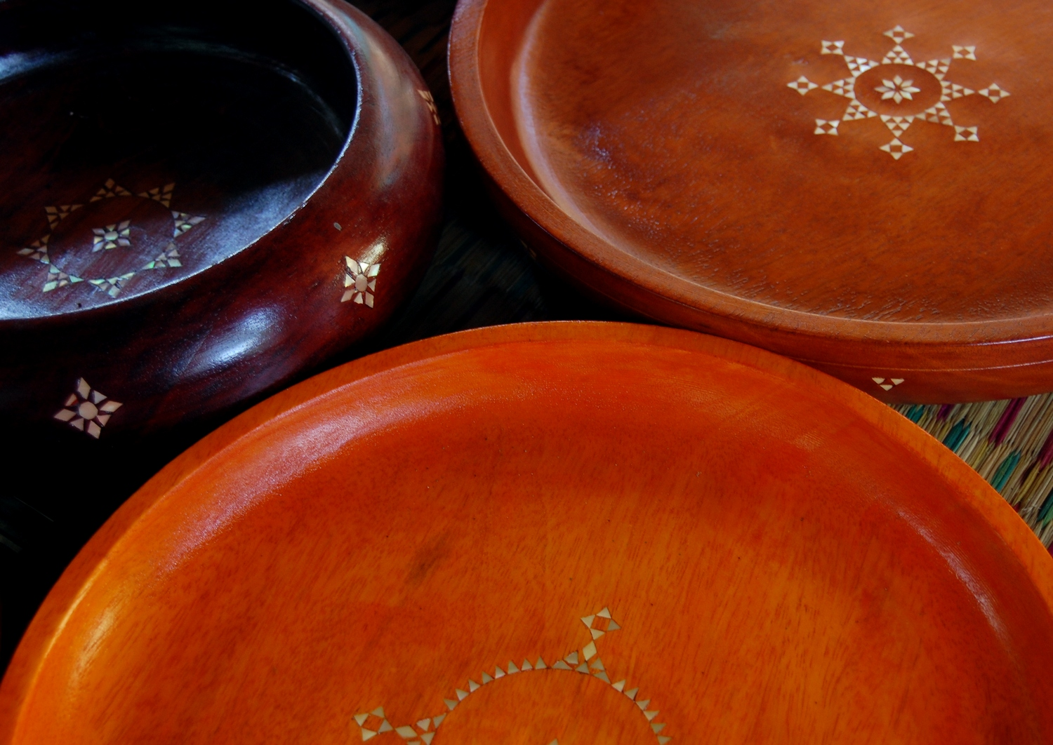 Candlenut (Aleurites moluccana), wood handicraft. Narmada, Lombok, Indonesia